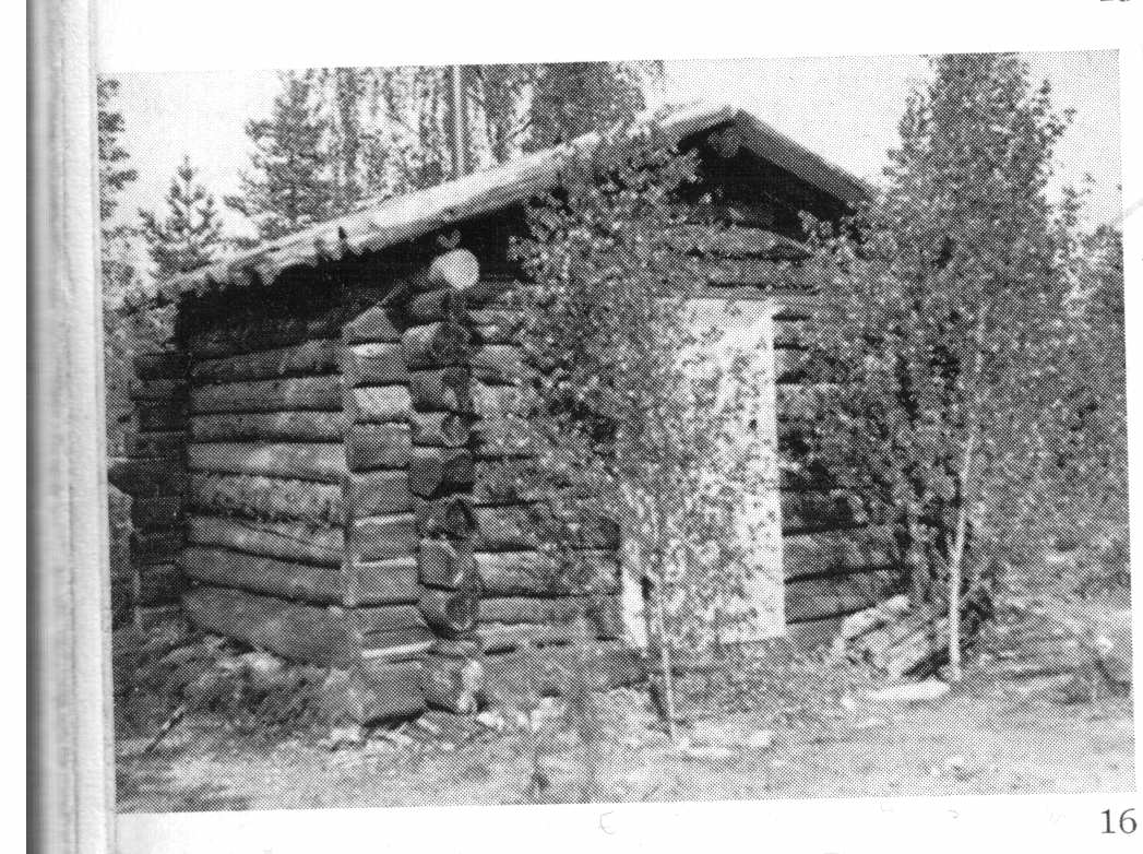 Fisherman's shelter cabin at the lake Repojarvi, Rovaniemi